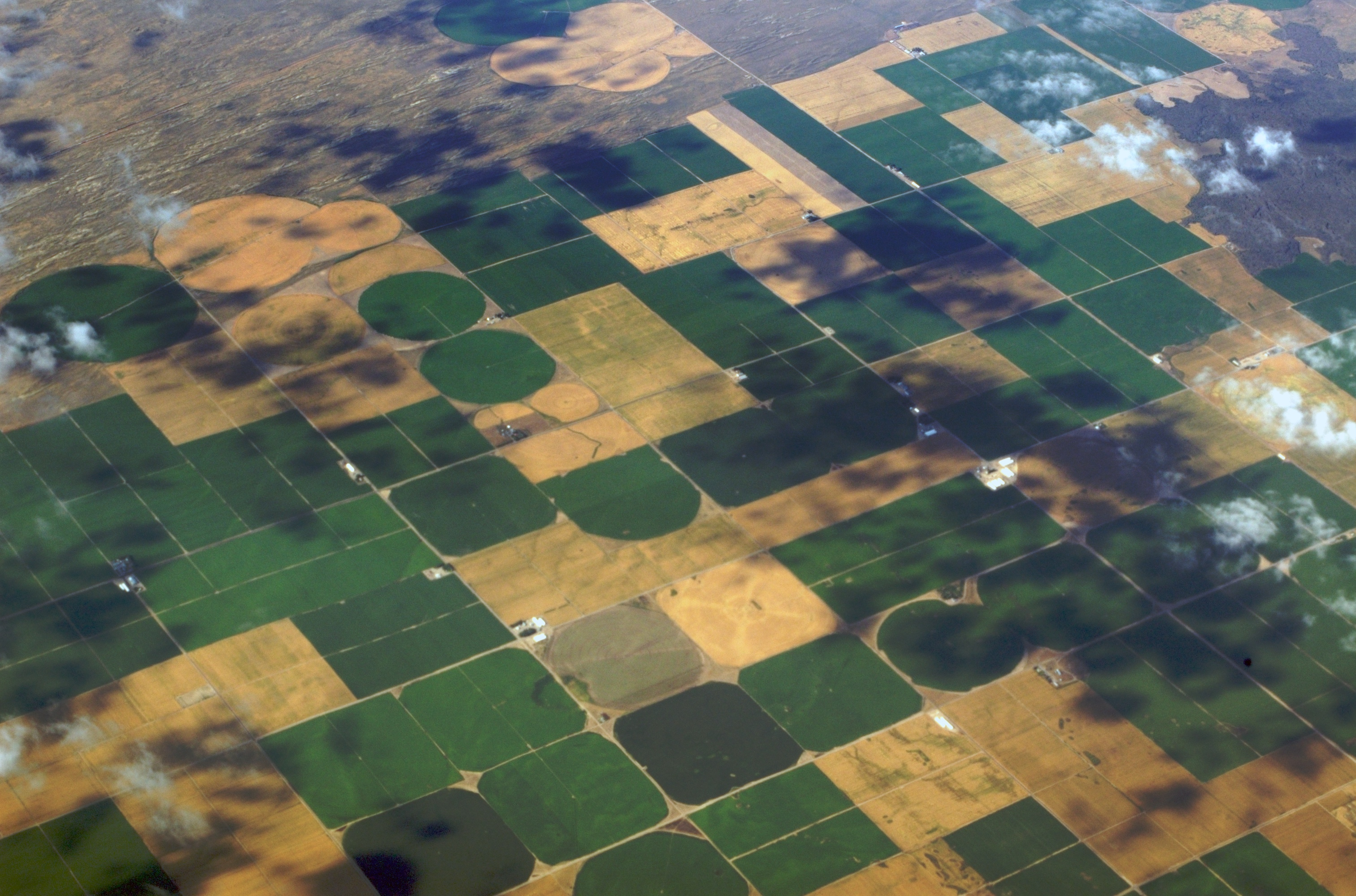 Irrigation, USA